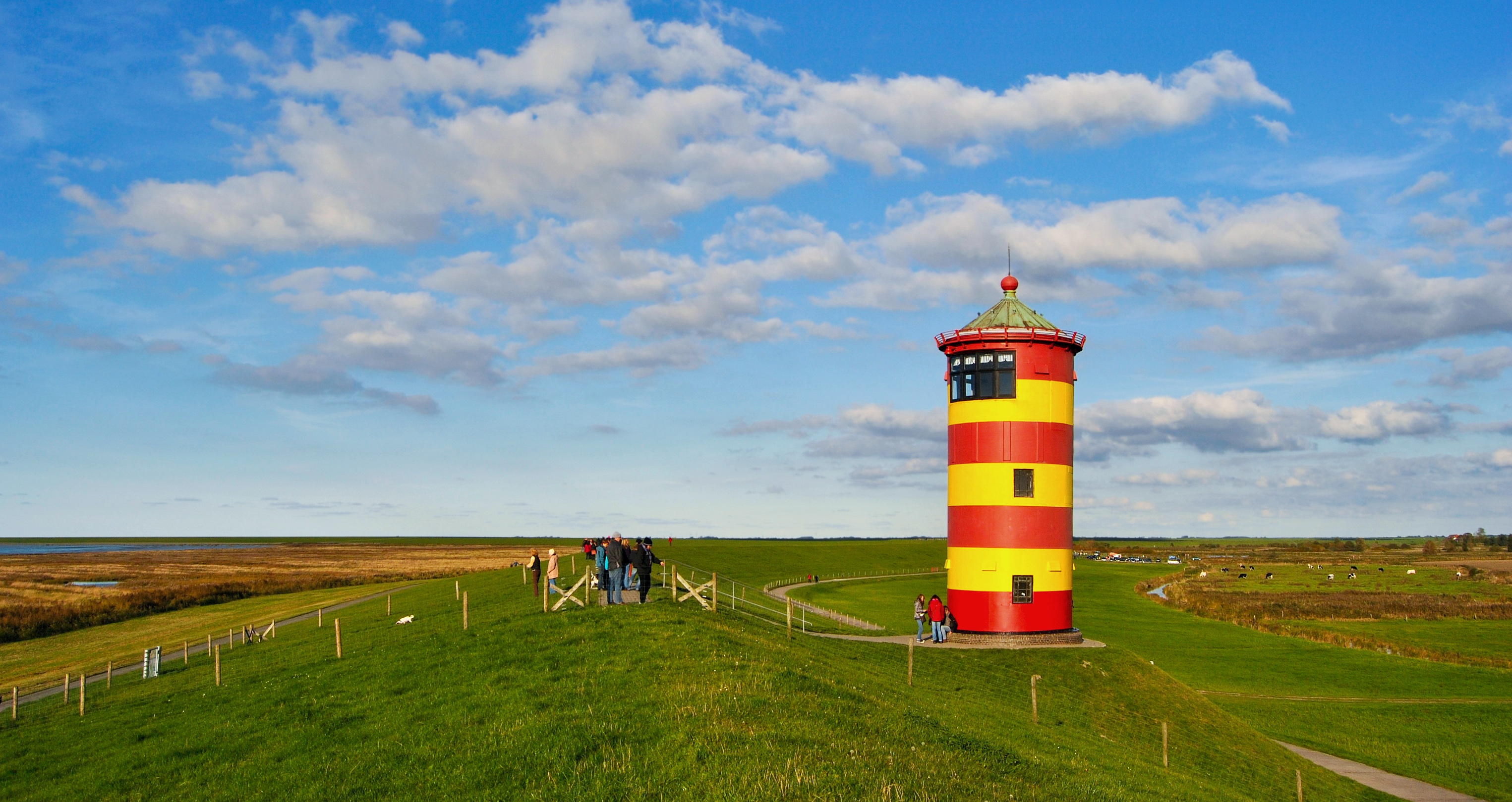 The Pilsum Lighthouse (Krummhörn, Lower Saxony, Germany), seen from southwest, on the sustained East Frisian dike beside the North Sea.